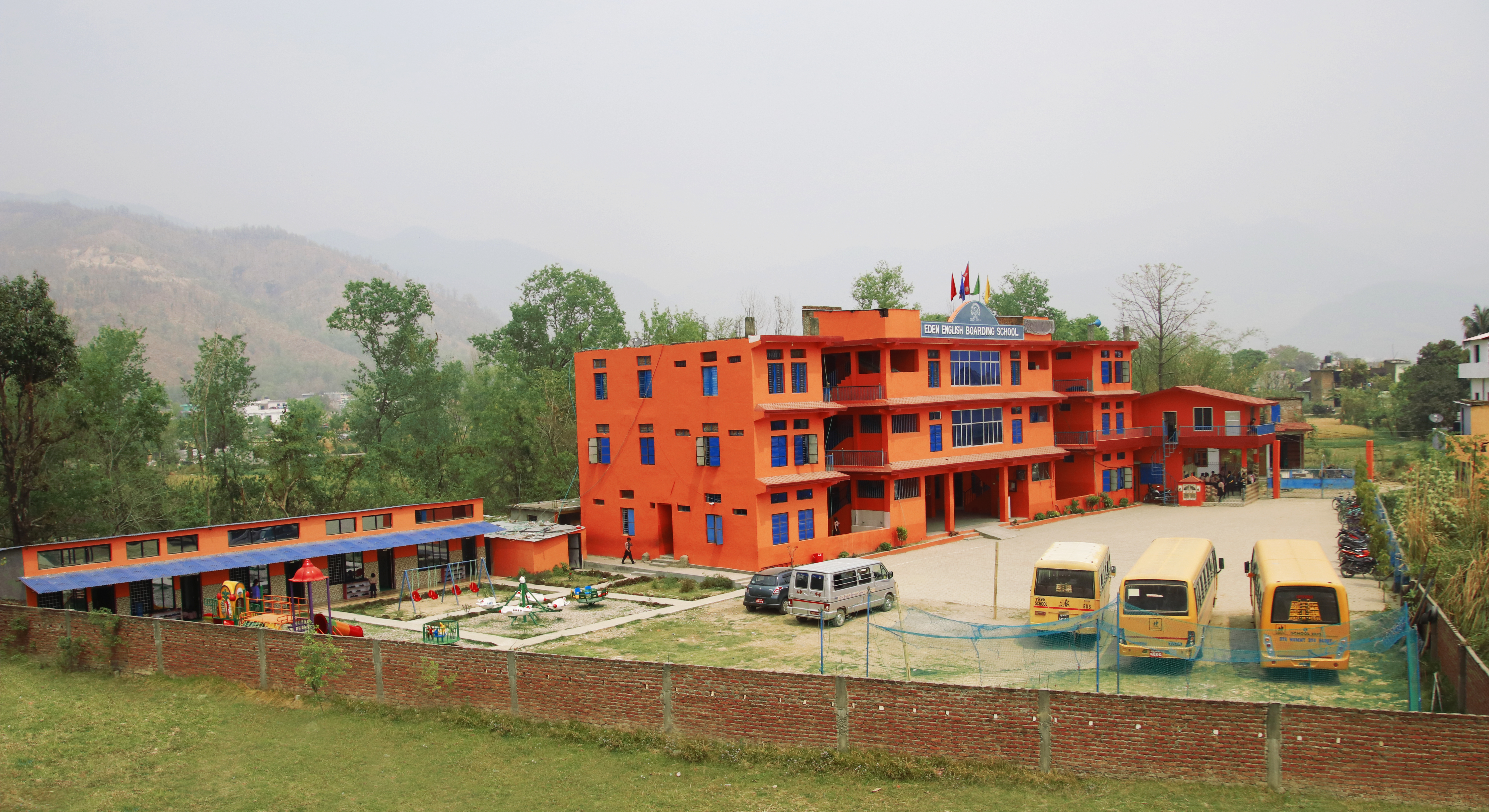 View (south view) of Eden English Boarding School, Naharpur, Butwal-11, Rupandehi, Nepal after being renovated and painted. Date: 17-12-2075 BS